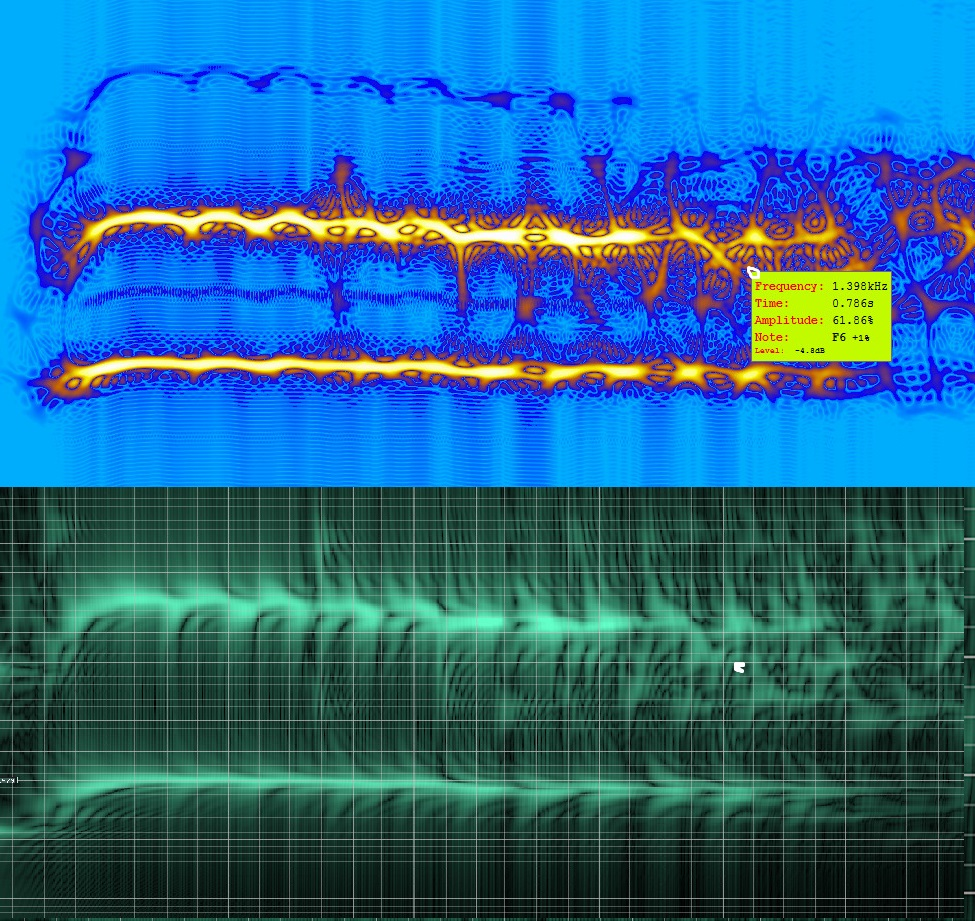 comparison of a time-frequency distribution plotted using Wigner Ville in yellow analysed with Sonogram 4 and a FIR Filter Bank in Green programmed by Antony Stewart